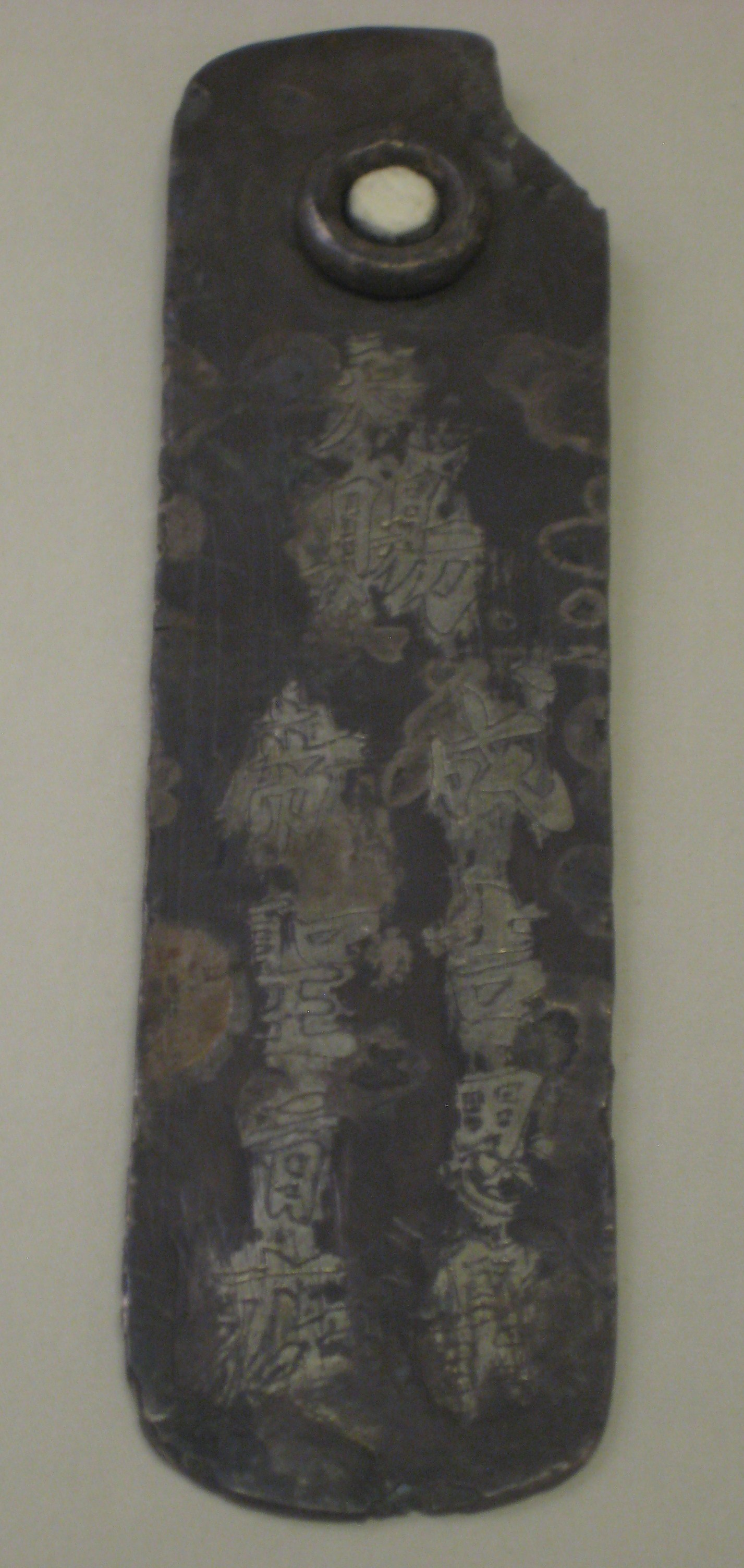 Silver paizi inscribed 天賜成吉思皇帝聖旨疾 "Bestowed by Heaven, the imperial edict of Emperor Chinggis [Genghis Khan]. Urgent." Yuan Dynasty (1206-1368).